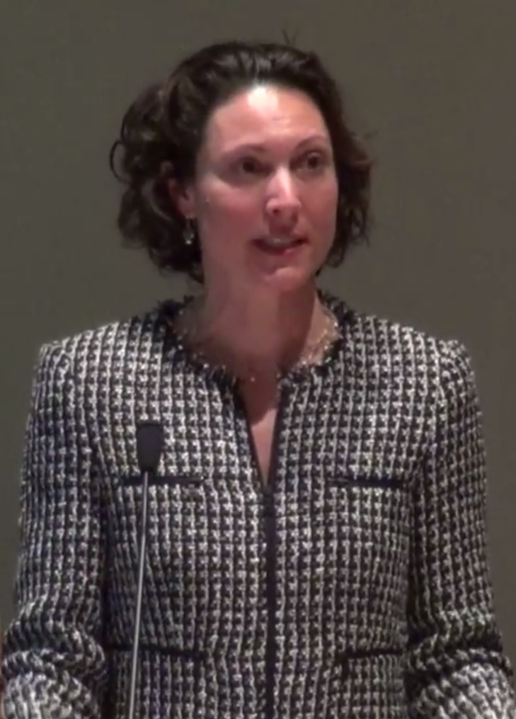 American journalist and author Emily Bazelon came to Mount Holyoke to discuss the issue of bullying, which she explores in depth in her recently published book titled "Sticks and Stones: Defeating the Culture of Bullying and Rediscovering the Power of Character and Empathy."